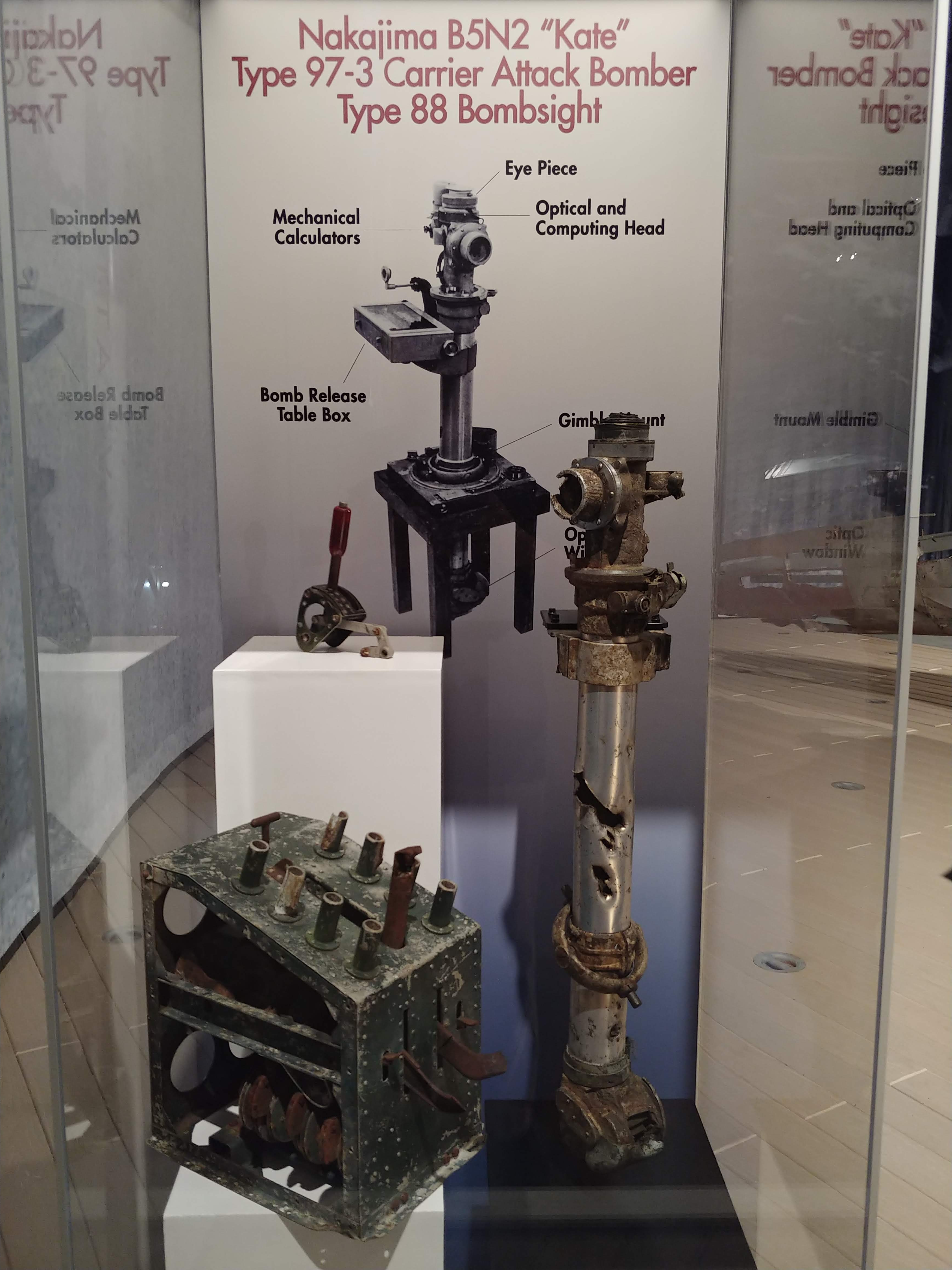 The Type 88 bombsight (right) was fitted on Japanese B5N2 torpedo bombers for accuracy during high level conventional bombing. The torpedo release lever (top left) was fitted on all B5N2 aircraft, and would be pulled to release the torpedo from the underbelly of the aircraft. The manual bomb release (bottom left) features 8 T-shaped handles that bombardiers used to individually release bombs during attacks.